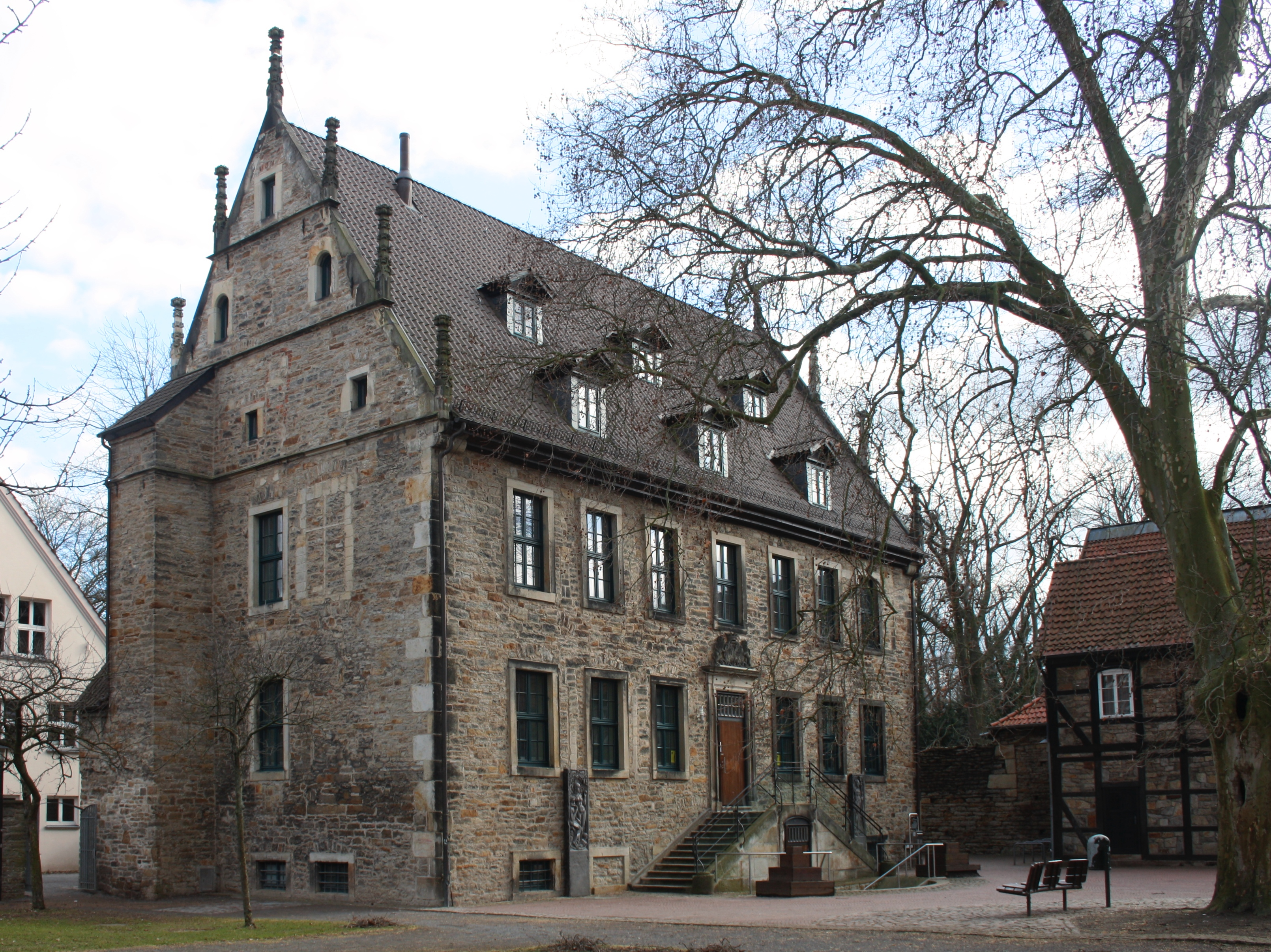 Stadthagen, Germany. Landsberger Hof, manor house built in 1532, today public library.